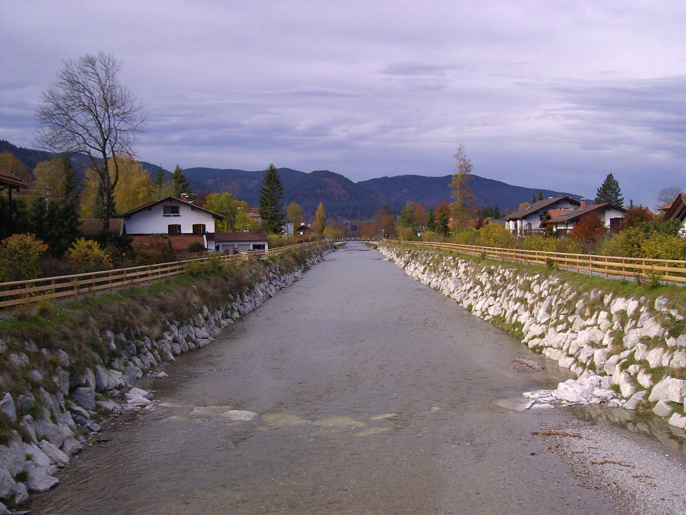 The river Weißach, border between the municipalities Rottach-Egern and Kreuth.